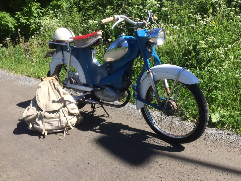 Raufossmopeden model 114. Manufactured in Norway 1958-1962.